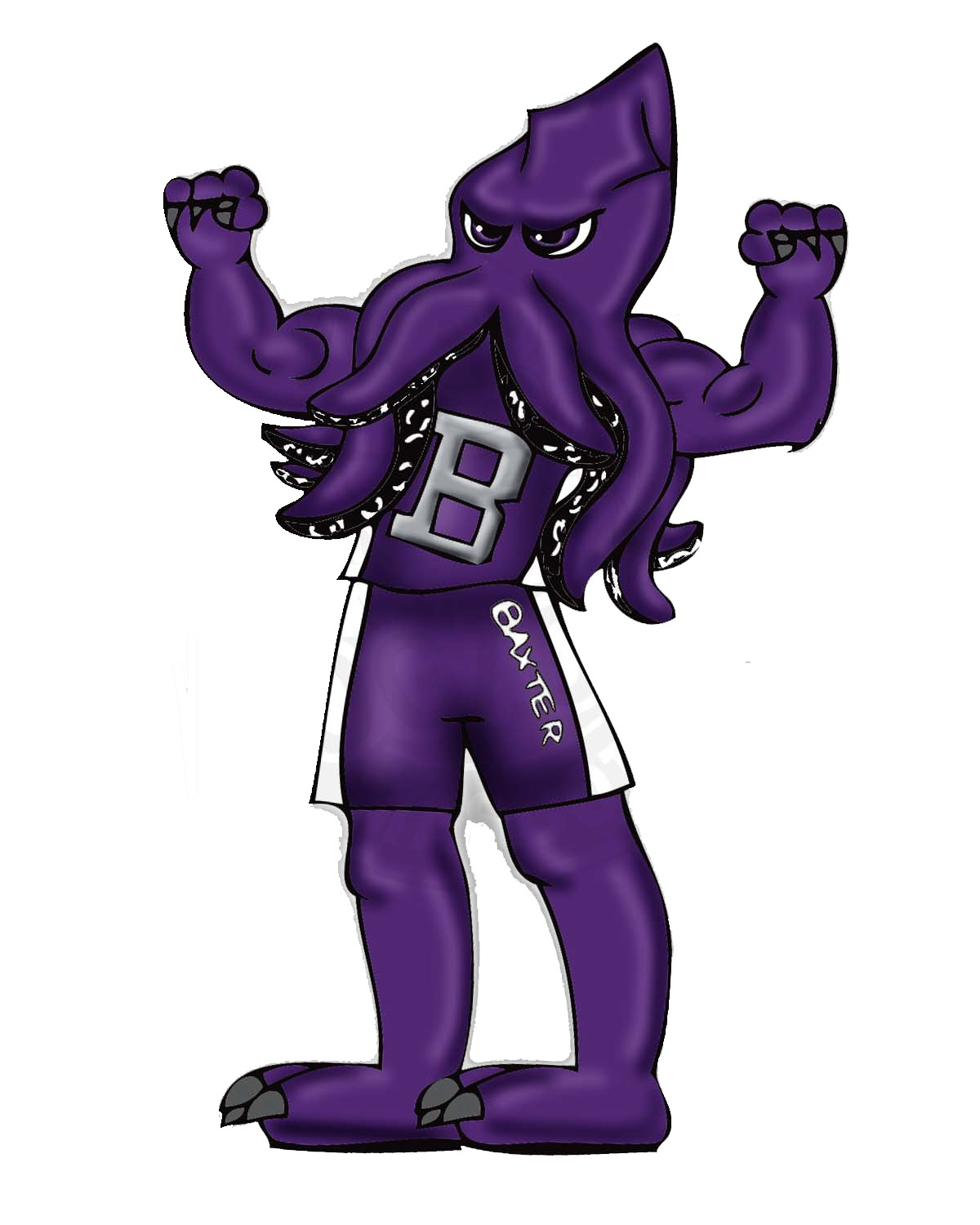 This is Baxter the Kraken, the mascot of Alliance Alice M. Baxter College-Ready High School.